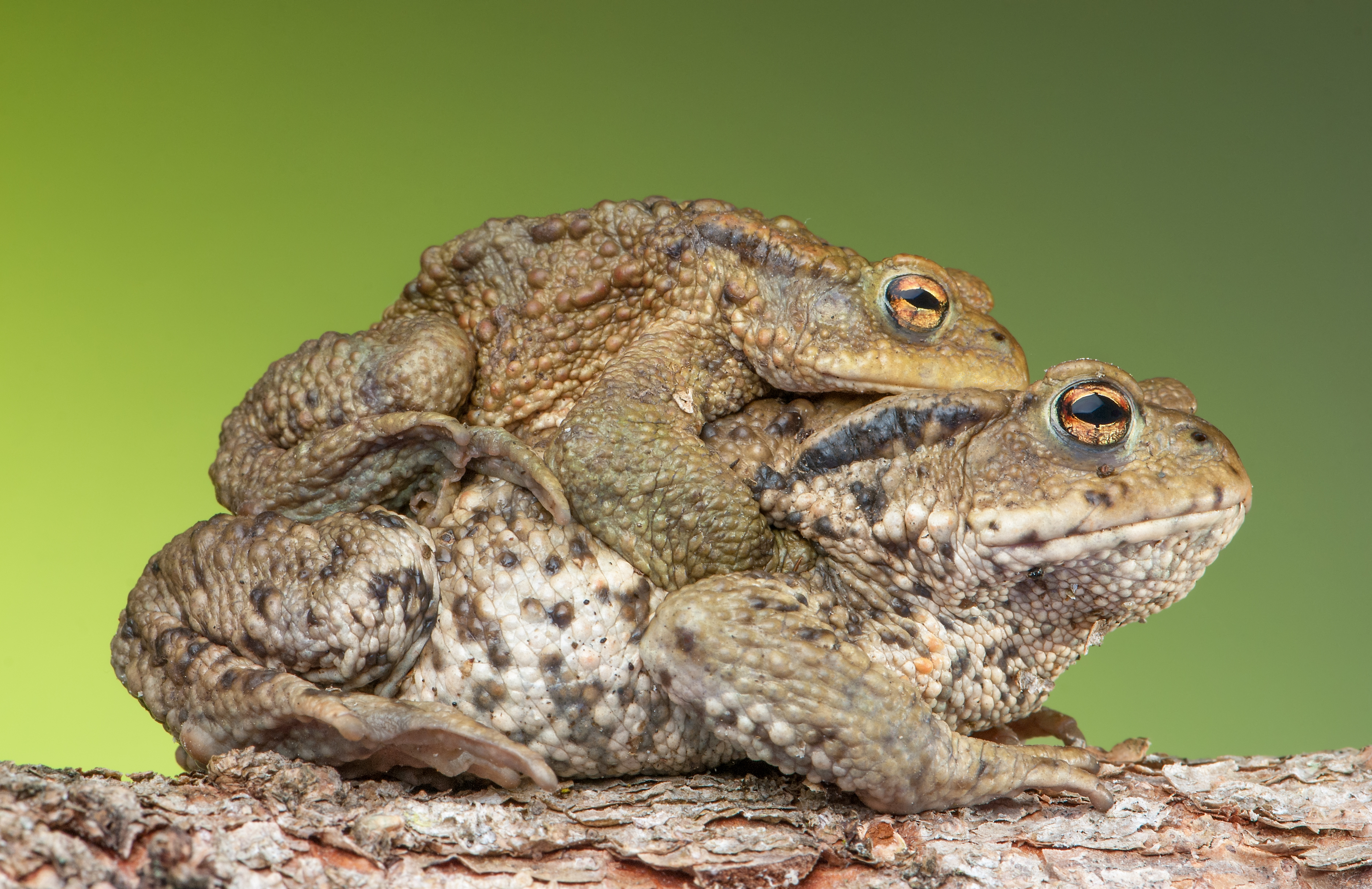 The common toad (Bufo bufo) is one of the many amphibians known for its amplexus as part of the mating process. The larger female toad often has to carry the male for days. From head to abdomen the female in the picture is about 95 mm long – the male only 65 mm.